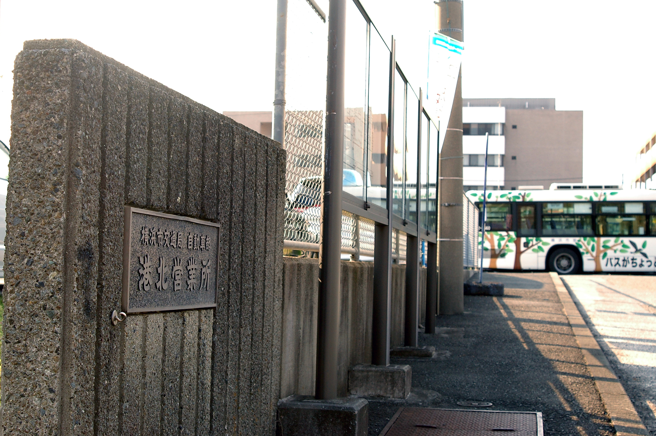 Kohoku Shed, Yokohama, Japan